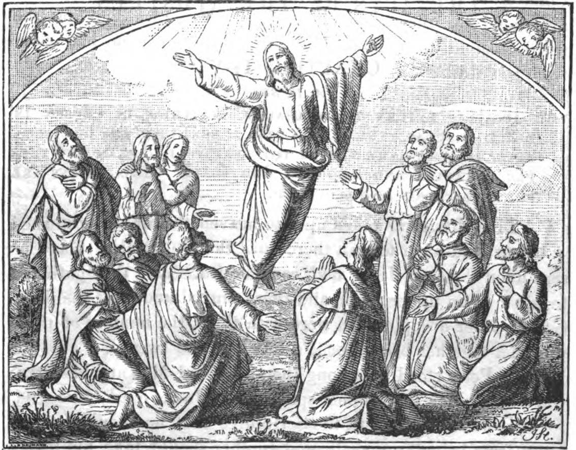 Jesus ascends to heaven.